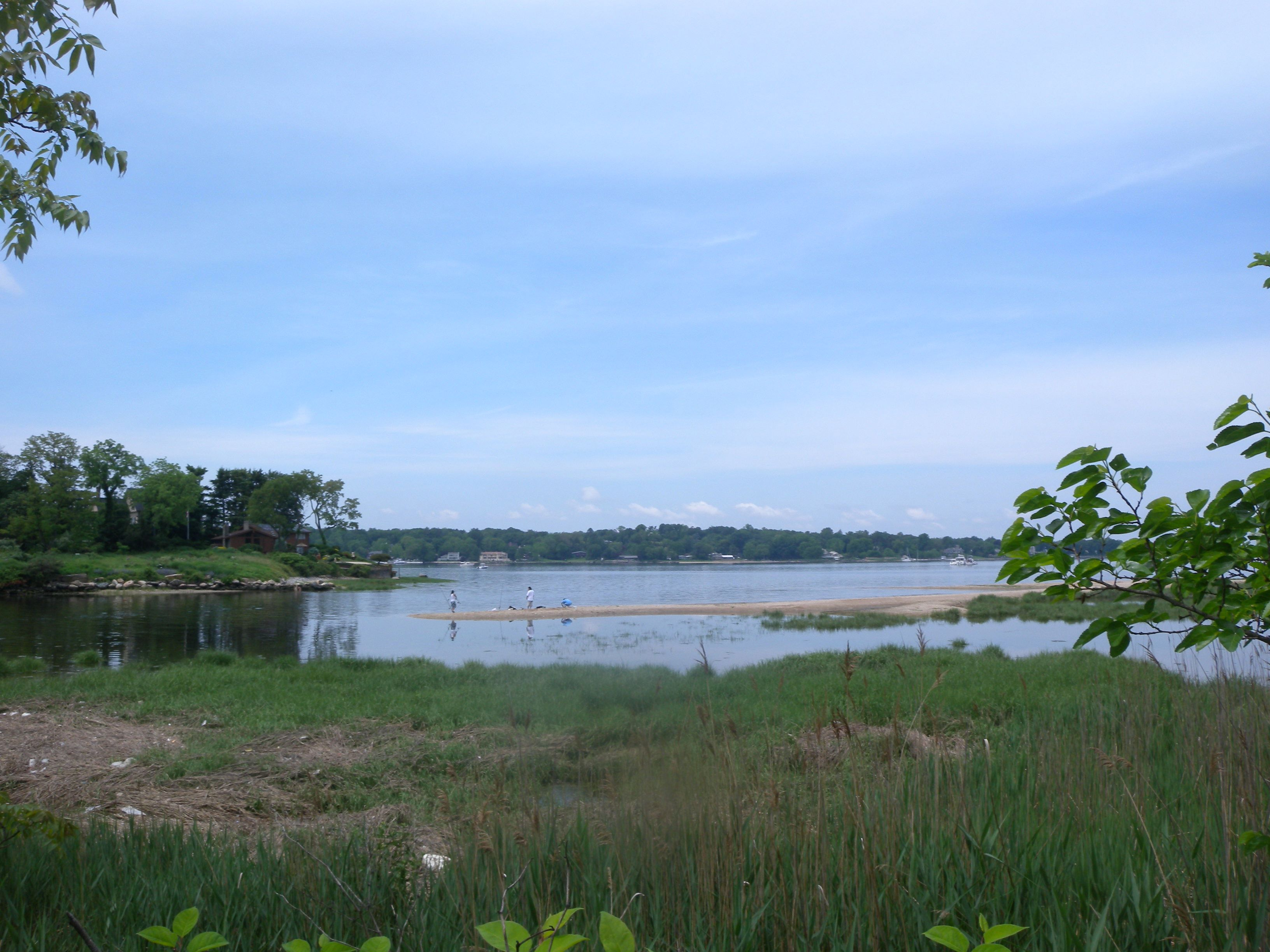 Looking northwest across Manhasset Bay from Pandome Manor, northwest of Leeds Pond on a mostly sunny midday.